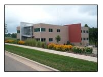 Terso Solutions Offices